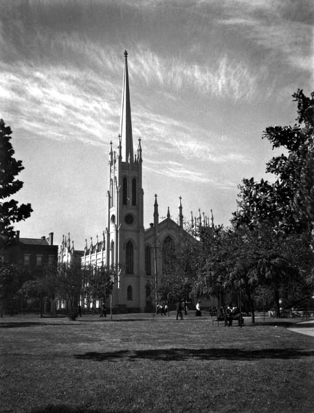 New Orleans: First Presbyterian Church on Lafayette Square. (Old high-steepled building which would be destroyed by the great hurricane of 1915)